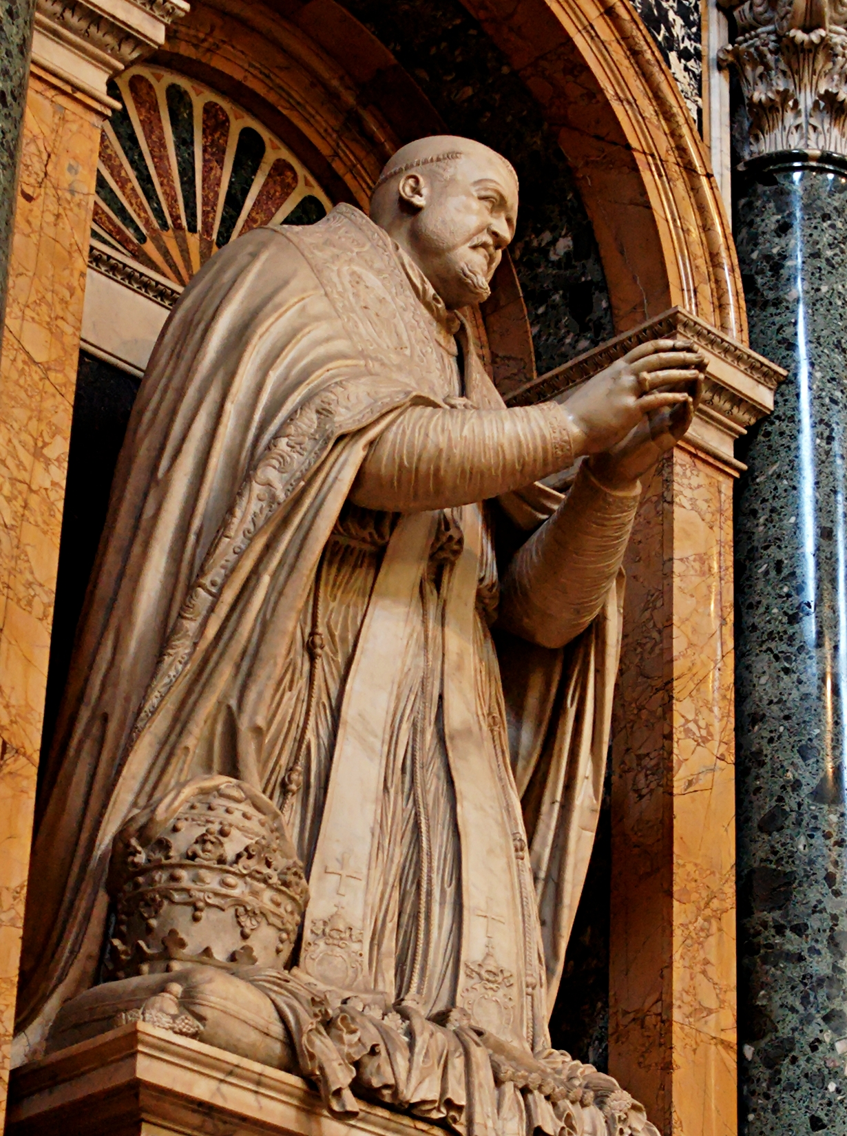 Statue of Pope Paul V, from his tomb in the Borghese Chapel of the Basilica di Santa Maria Maggiore.